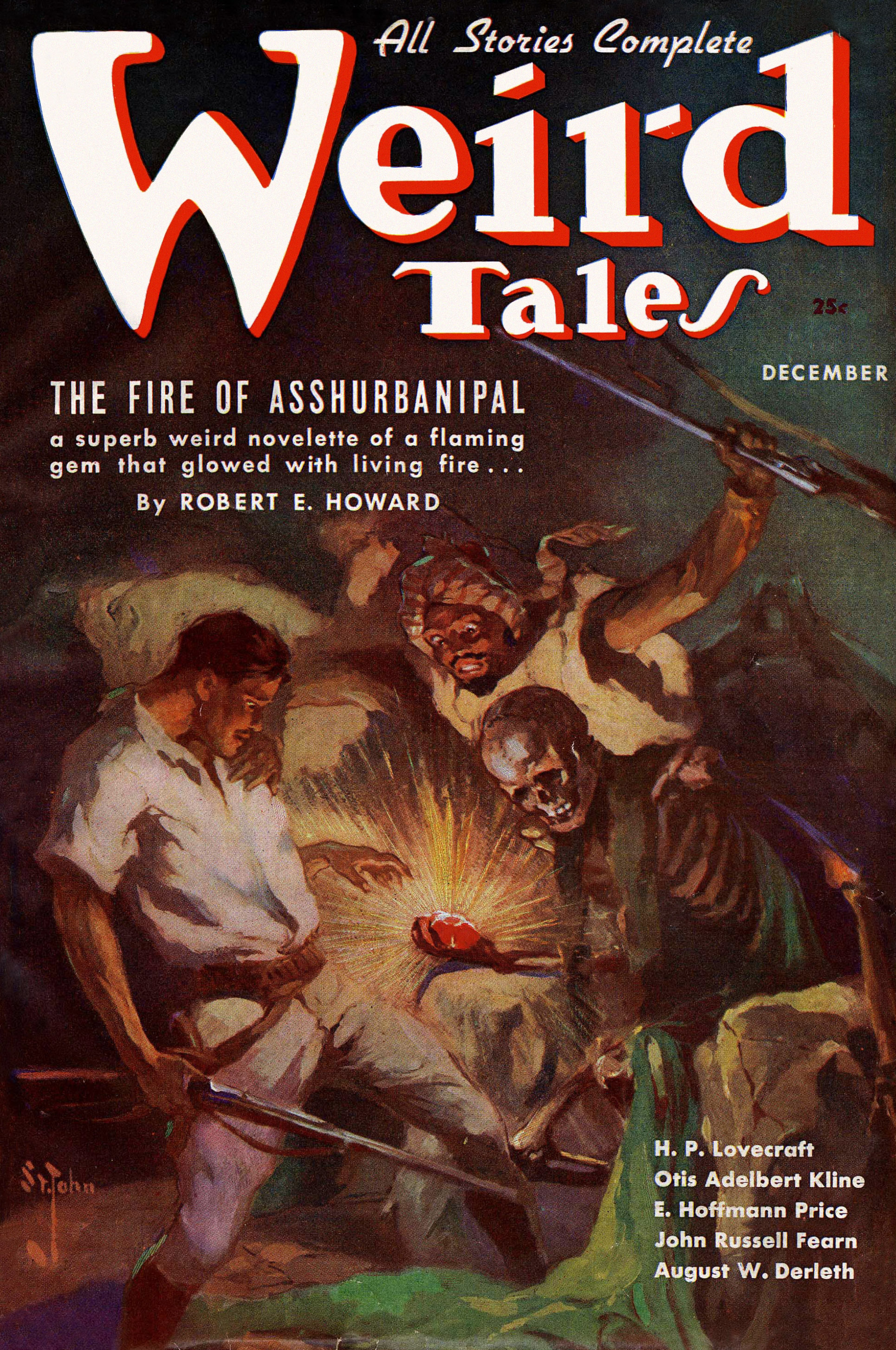 Cover of the pulp magazine Weird Tales (December 1936, vol. 28, no. 5) featuring The Fire of Asshurbanipal by Robert E. Howard. Cover art by J. Allen St. John.